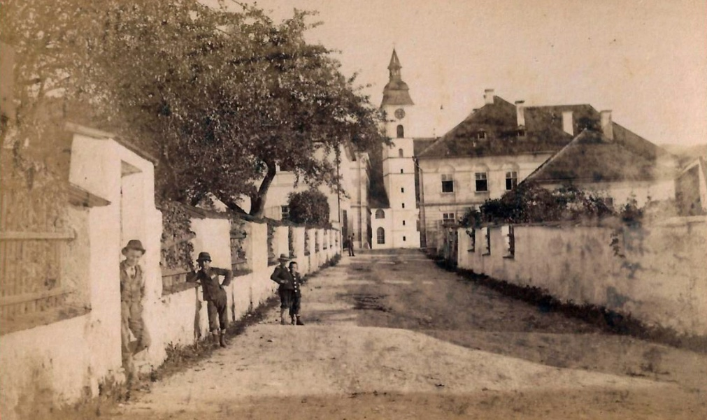 Spaungarten Scheibbs